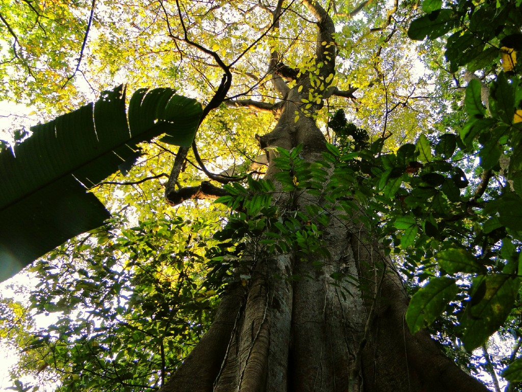 Gyranthera caribensis tree with buttressed roots, Henri Pittier National Park, Venezuela.